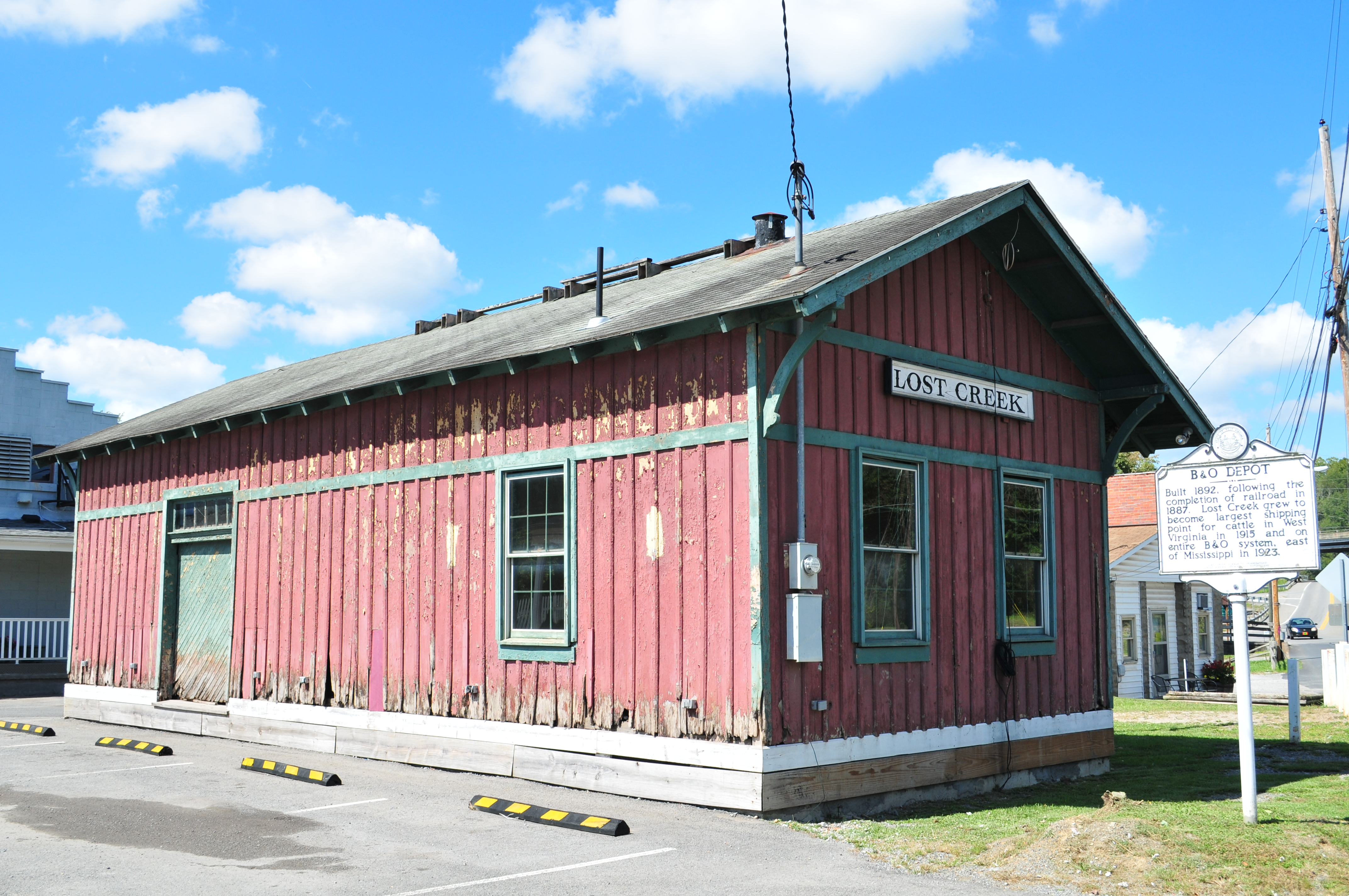 Lost Creek Baltimore and Ohio Railroad Depot, Main St., Lost Creek Rd., and County Route 48 Lost Creek